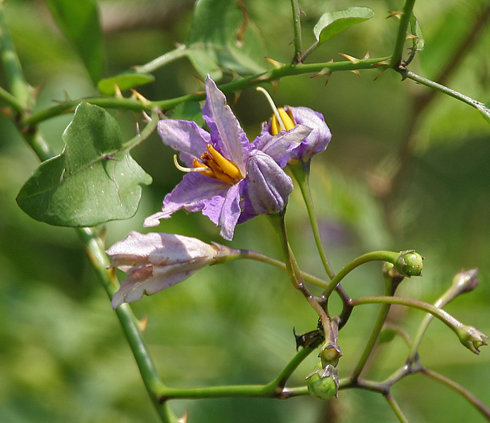 Costa Rica Nightshade Solanum wendlandii in Krishna Wildlife Sanctuary, Andhra Pradesh, India.